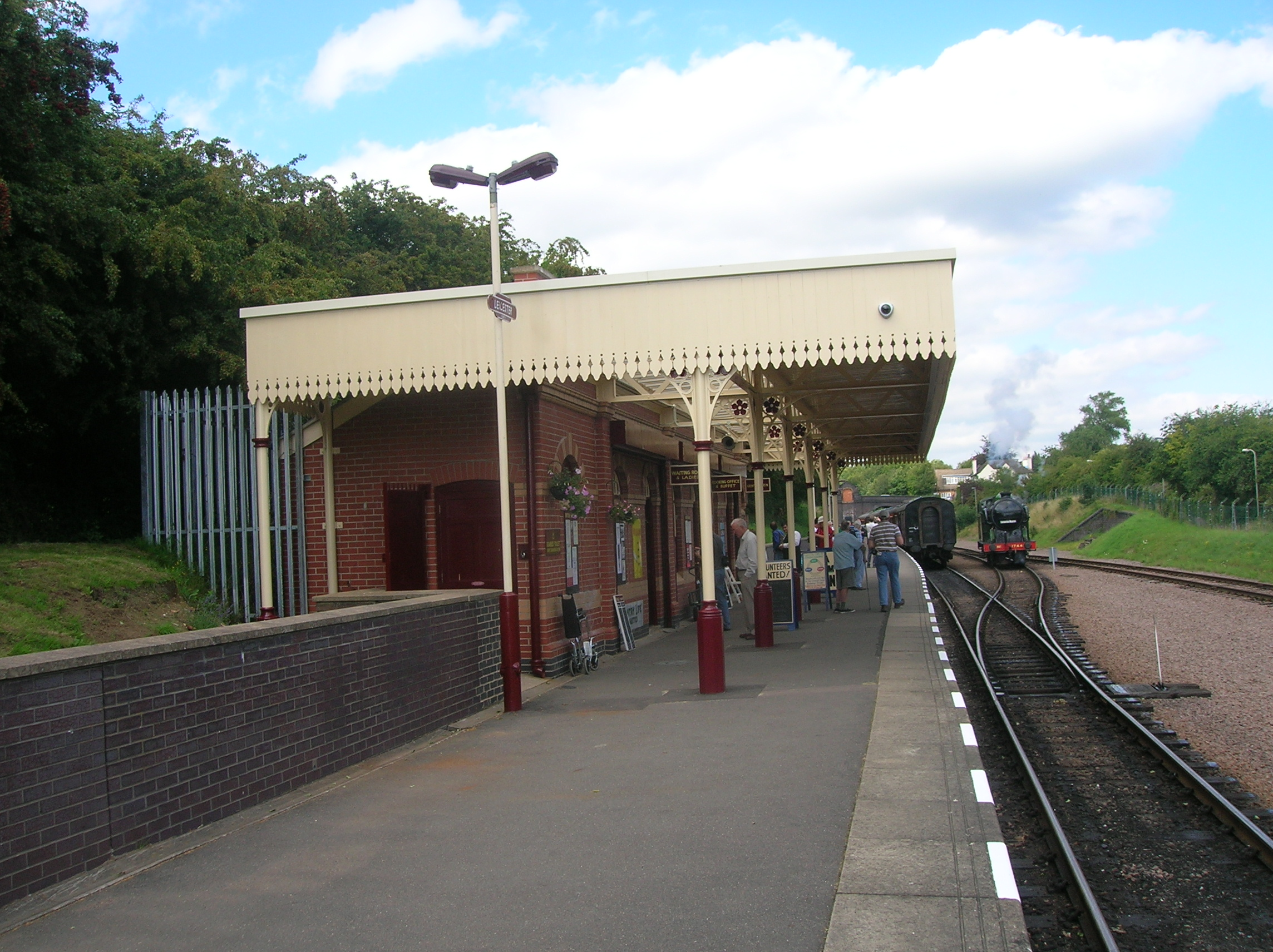 A new version of the Leicester North canopy photo. It looks a slight better than the previous and very-blurred example